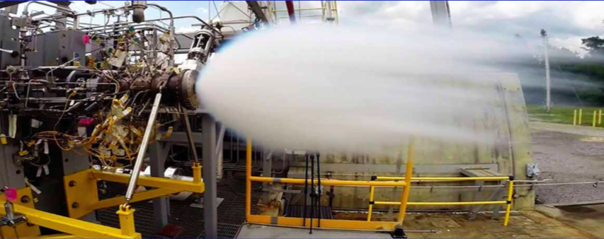 Photo of a Raptor engine pre burner test at the Stennis Space Center